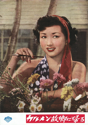 1951 Japanese small movie poster (B5 size) for 1951 Japanese movie Carmen Comes Home (カルメン故郷に帰る Karumen kokyō ni kaeru) featuring Hideko Takamine.